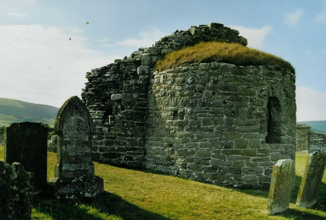 Orphir - round church Exterior view, from the east